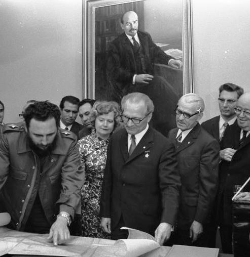 Erich Honecker and Fidel Castro study a map of Cuba while Friedrich Ebert (the son of the more famous one) and Werner Lamberz look on, topped off with a portrait of Lenin. Evidently a politically inspired composition ...